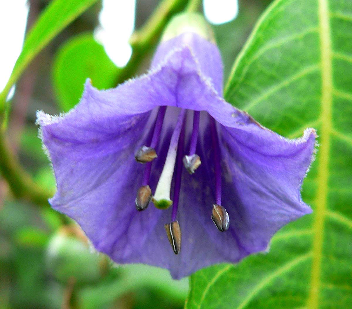 Photo of Iochroma australe at the UBC Botanical Garden